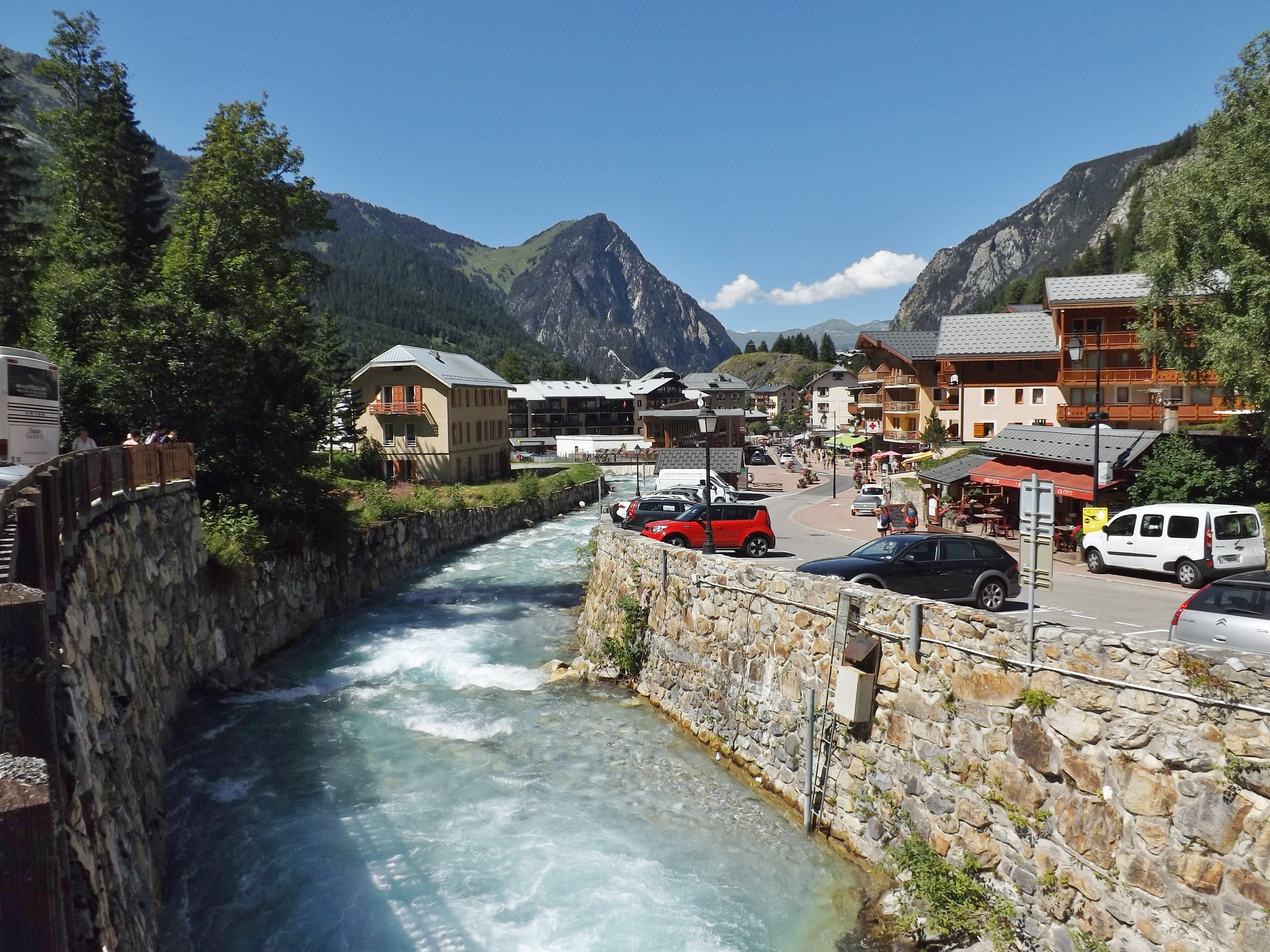 Sight, in summer, of the Doron de Pralognan river crossing Pralognan-la-Vanoise village, in Savoie, France.